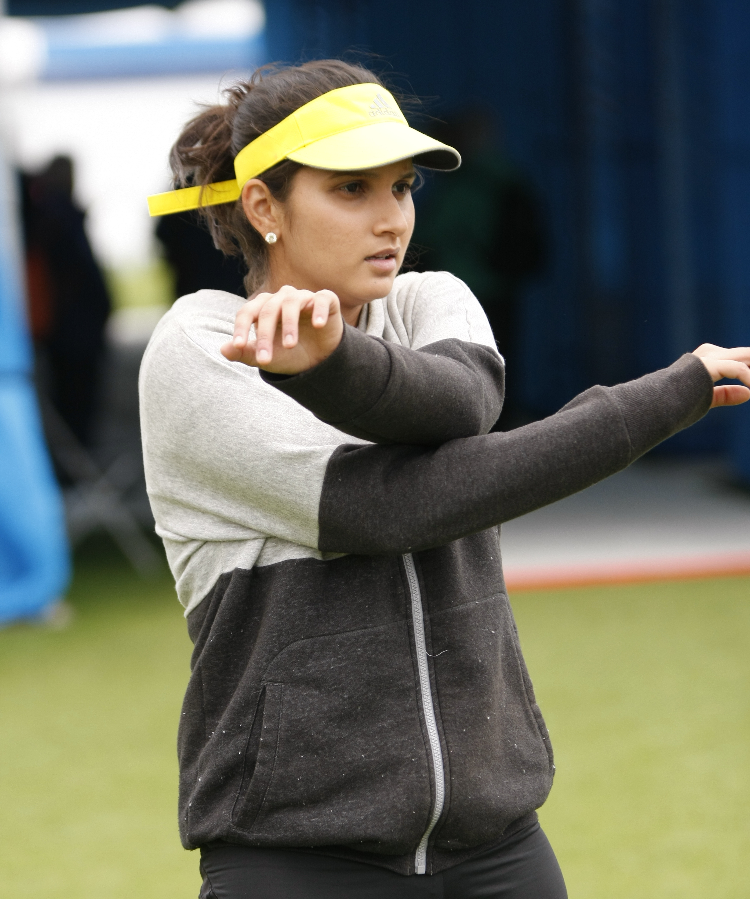 Aegon International Tennis, Eastbourne, June 2013